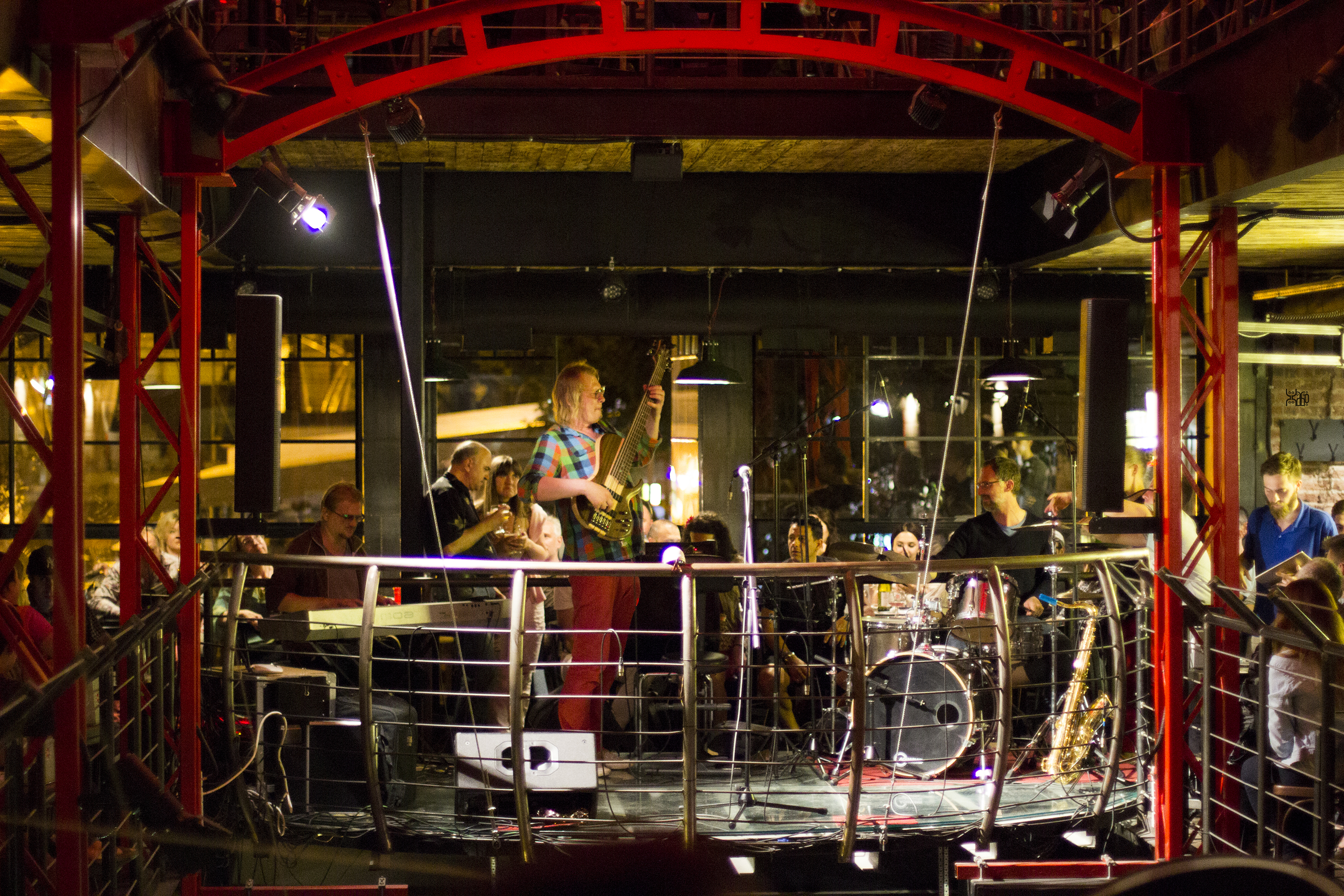 David Siegel - keys, Andrew Arnautov - bass, Mark Walker - drums